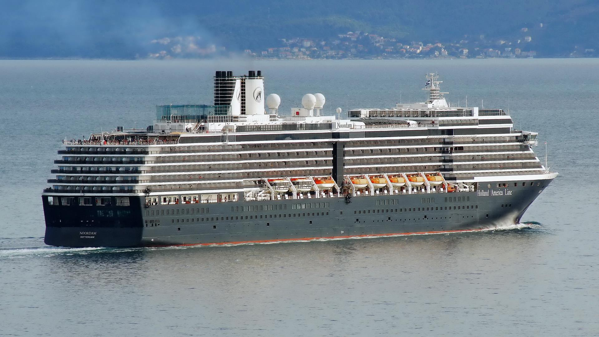 MS Noordam departing Split, CroatiaTime-space: Jun 4, 2013; CEST 17:31:32 N 43°29'15", E 16°25'14"; Heading ~215°